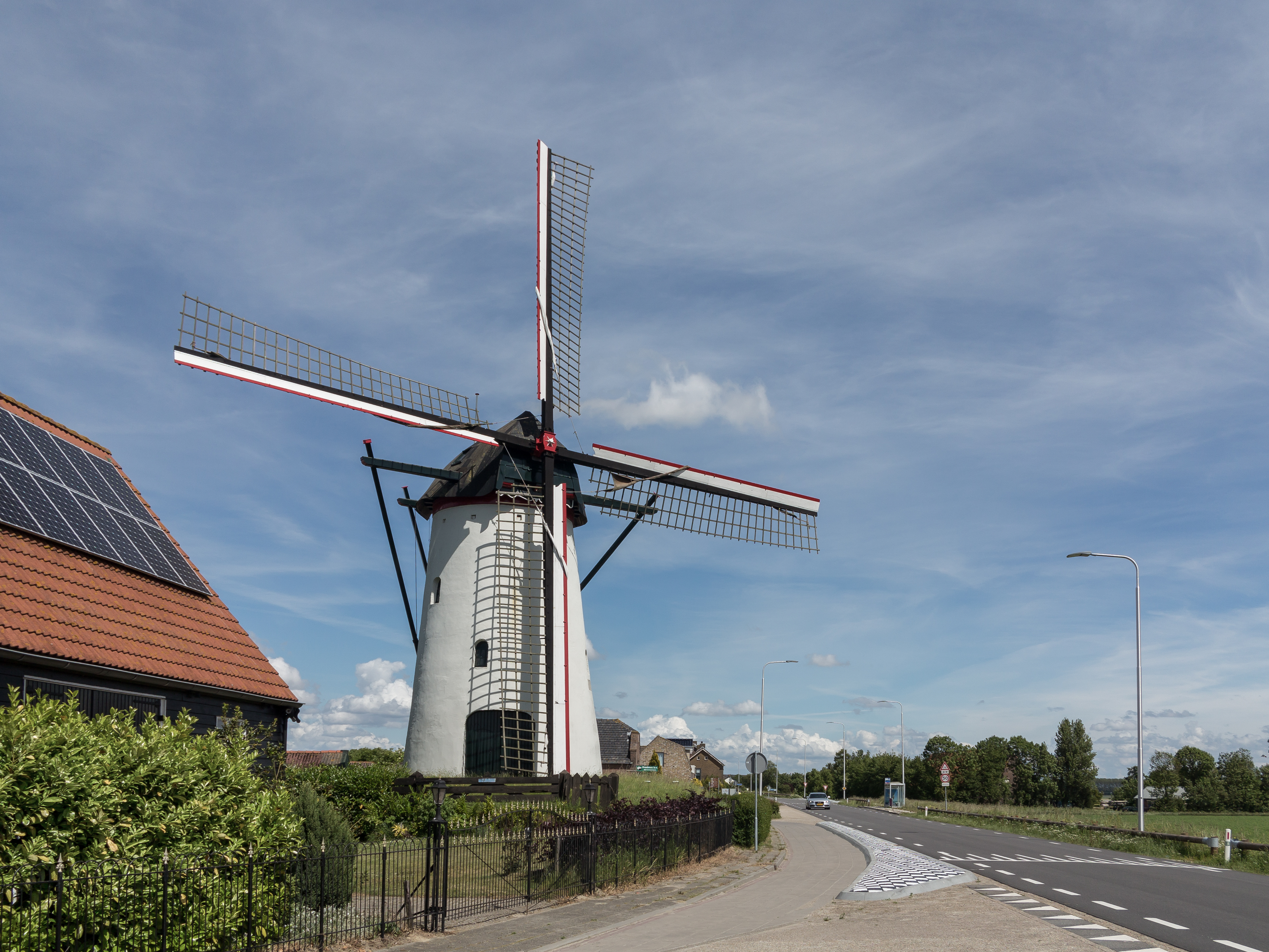 Heense Molen, windmill: de Heense Molen - molen de Vos